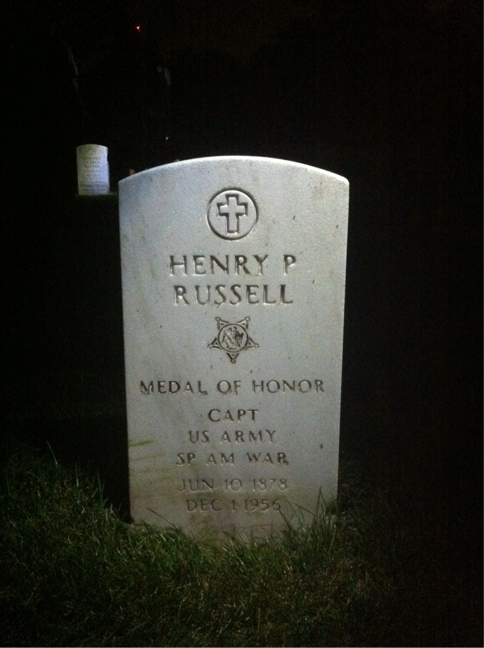 Grave of Henry P. Russell at Arlington National Cemetery